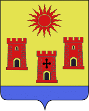 Coat of arms of Novmijailovski (Tuapse, Krasnodar, Russia).